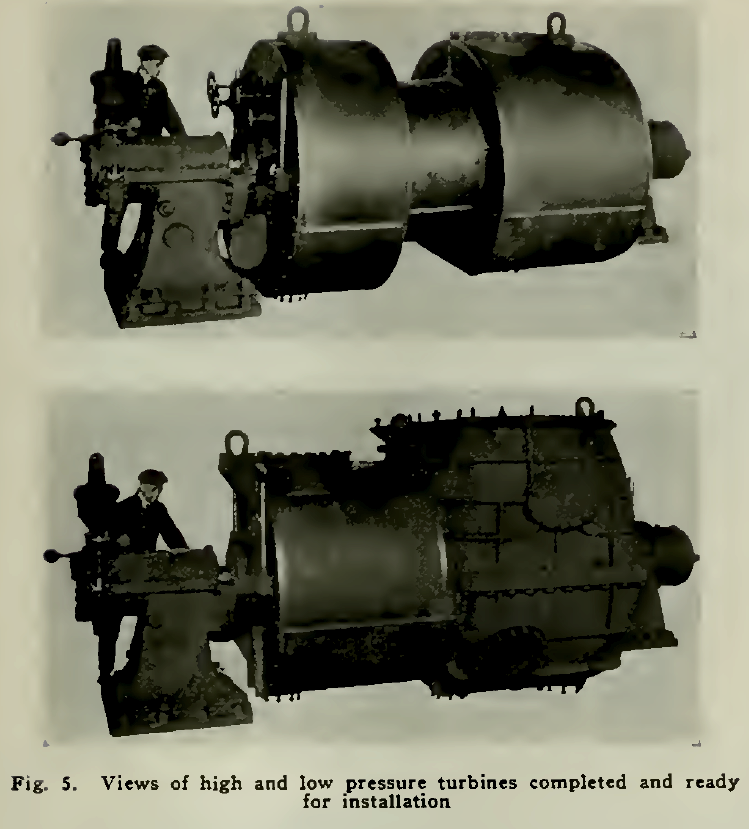 High and low pressure trubines for S.S. "Maui".